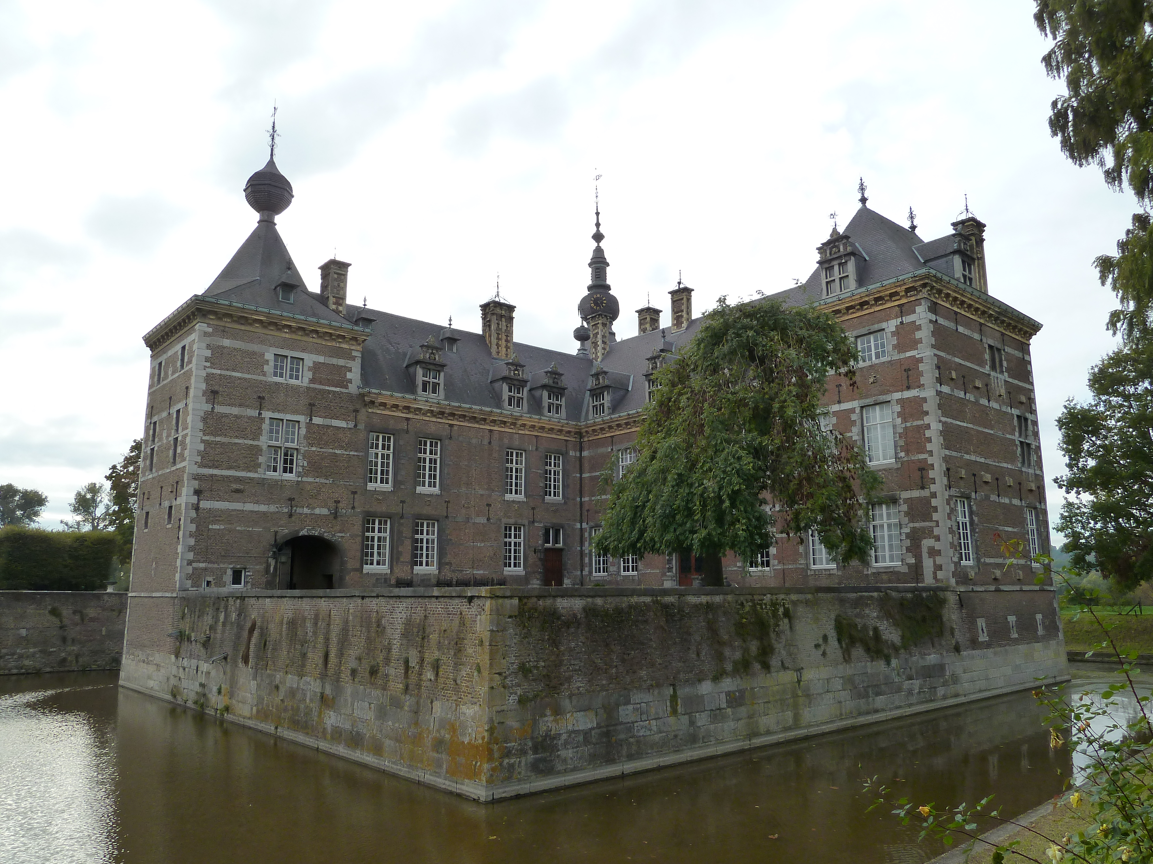 Castle Eijsden, Eijsden, Limburg, the Netherlands